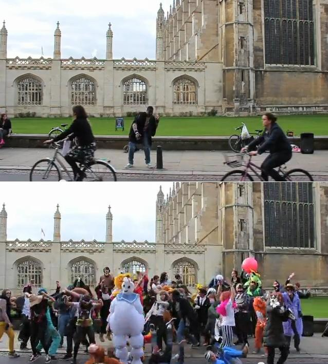 King's Parade, Cambridge, England taken at 3:30pm, Saturday 16th February 2013 (from a stills camera, placed beside a camcorder as a "Harlem Shake" video was being filmed, and subsequently cropped to as closely as possible resemble still frames from the finished video, for illustrative purposes.)